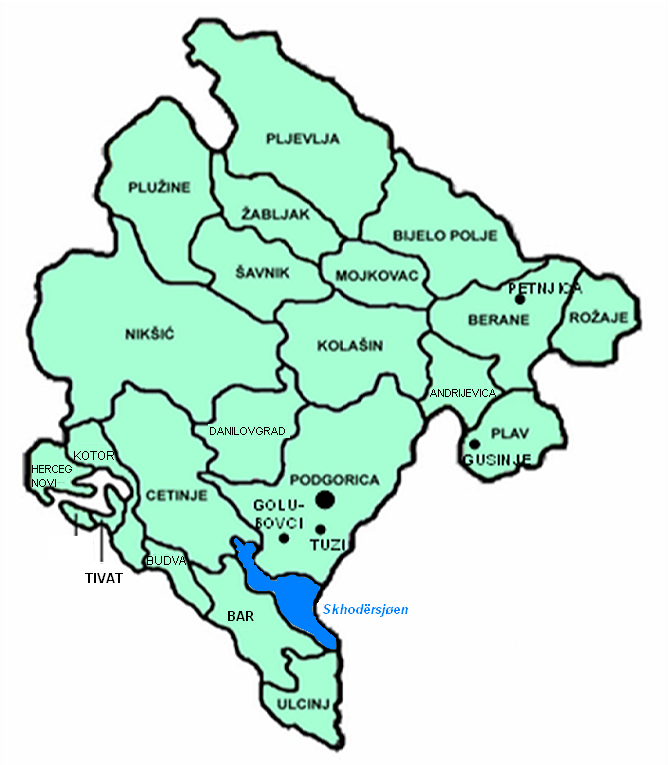 Montenegro municipalities